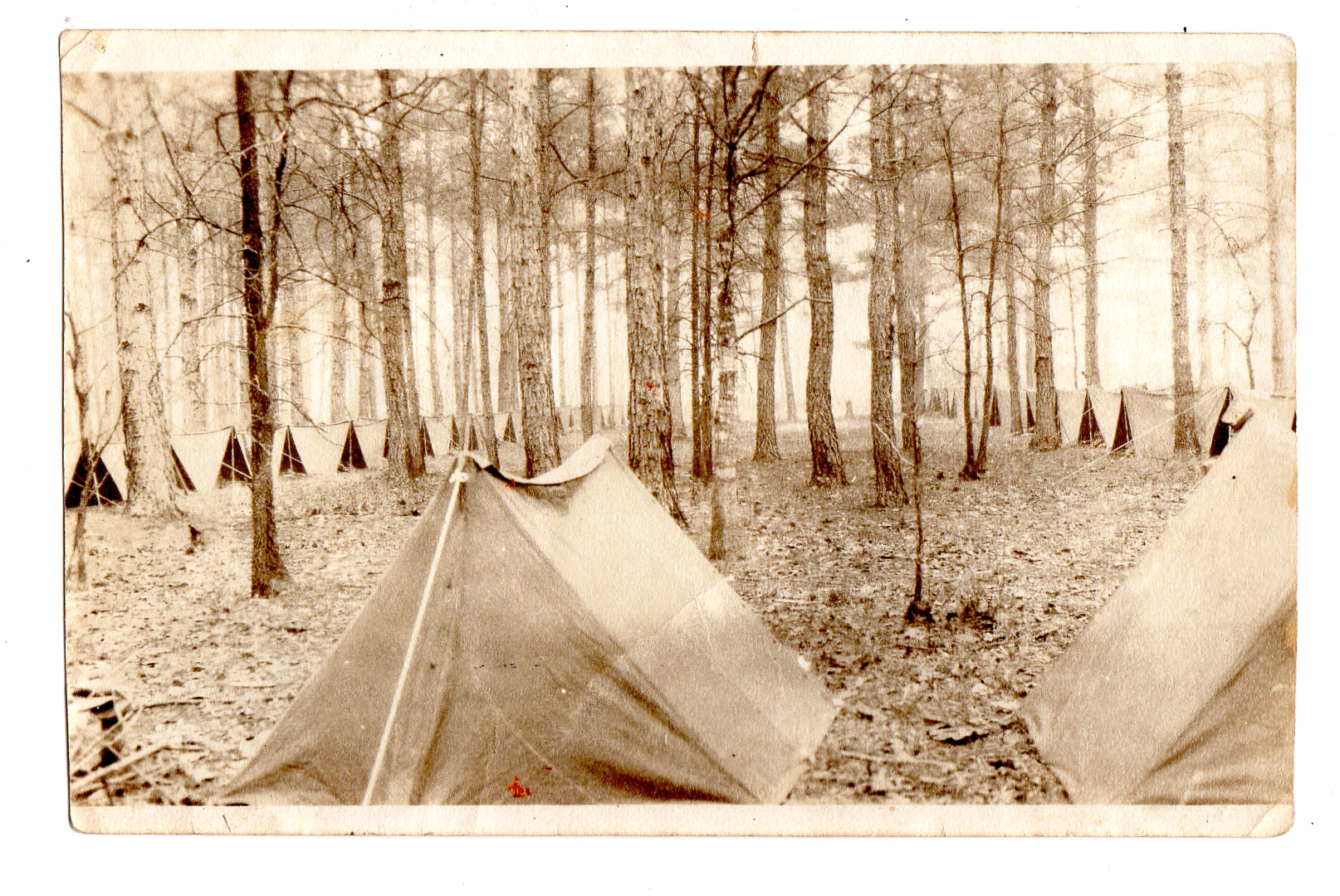 Camped on the Rifle Range